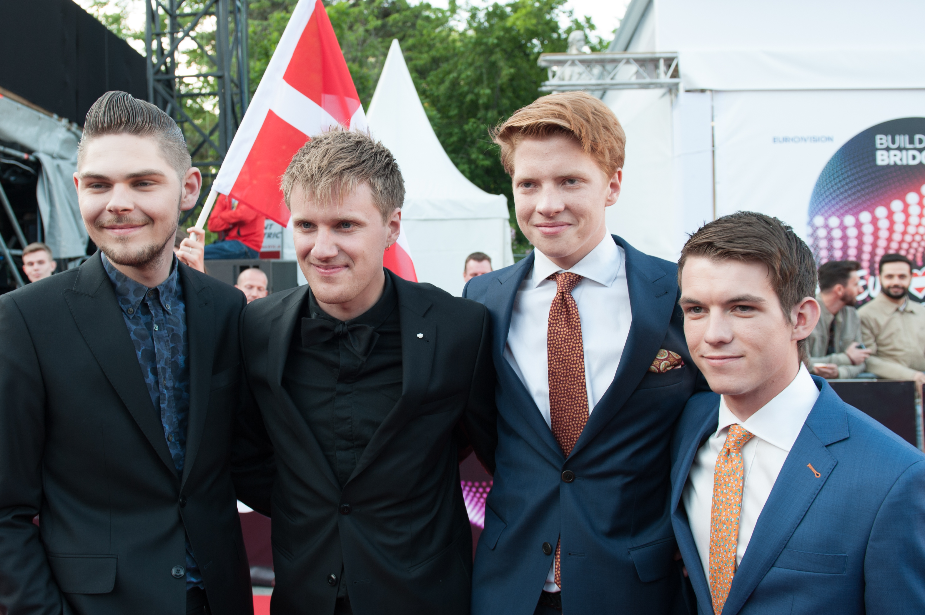 Eurovision Song Contest Vienna 2015: Anti Social Media, Denmark